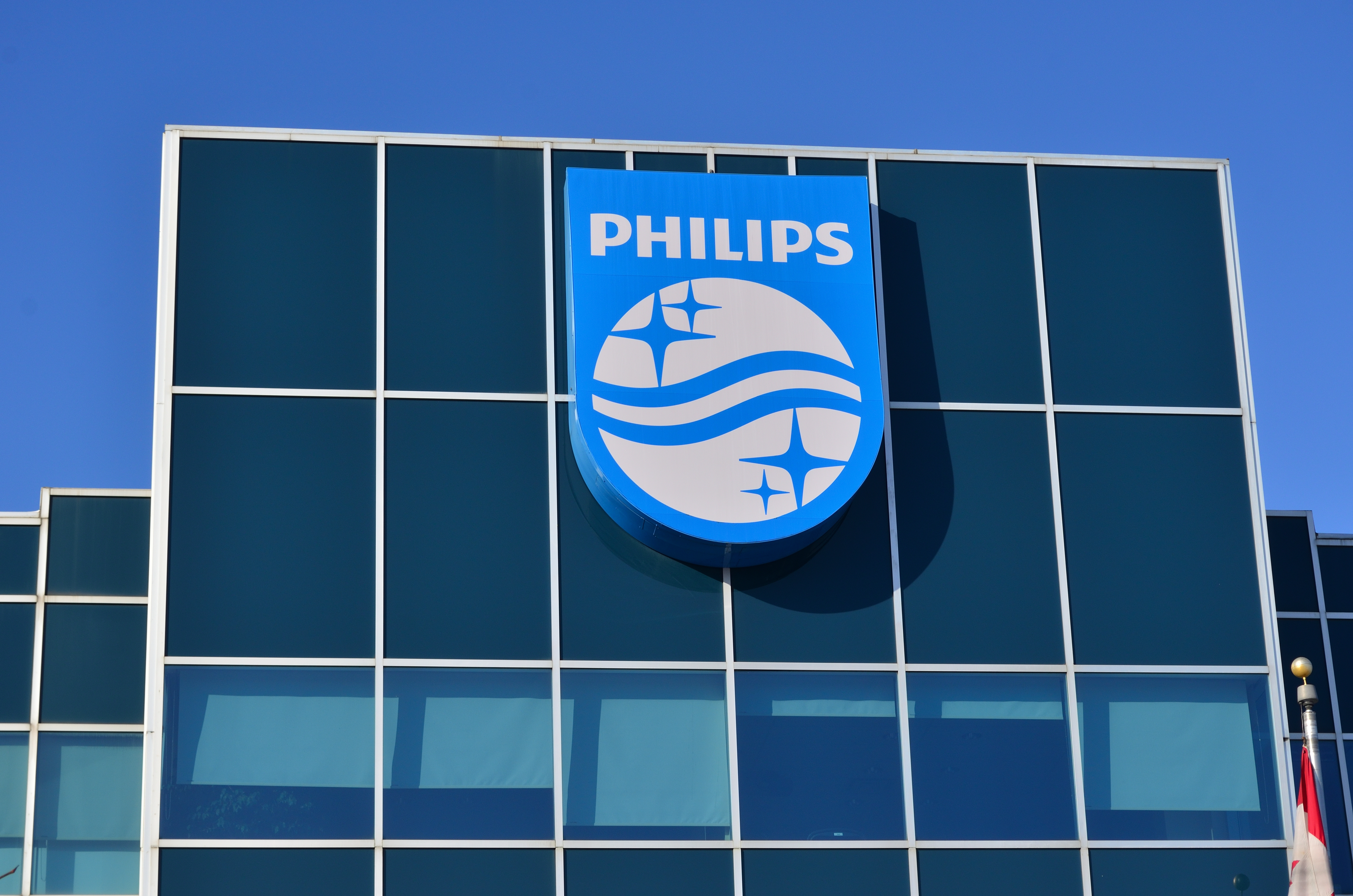 Philips office - Address: 281 Hillmount Rd, Markham, ON L6C 2S3